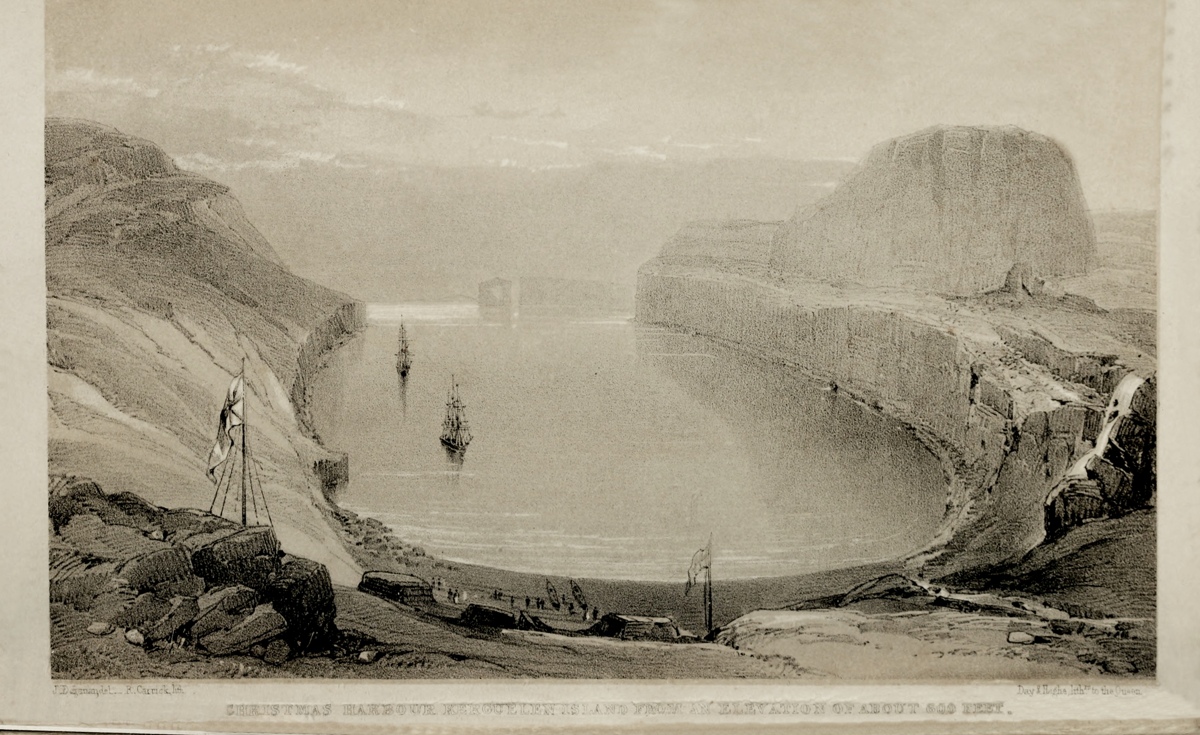 image on page 8 of File:A Voyage of Discovery and Research in the Southern and Antarctic Regions Vol 1.djvu